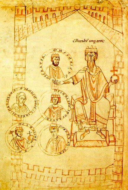 Emperors of the Salian dynasty: Conrad II, Holy Roman Emperor an the throne holding images of Henry III, Henry IV, Conrad, Henry V and Agnes